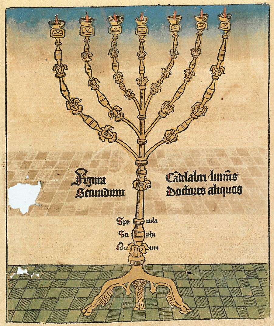 Woodcut from the Nuremberg Chronicle